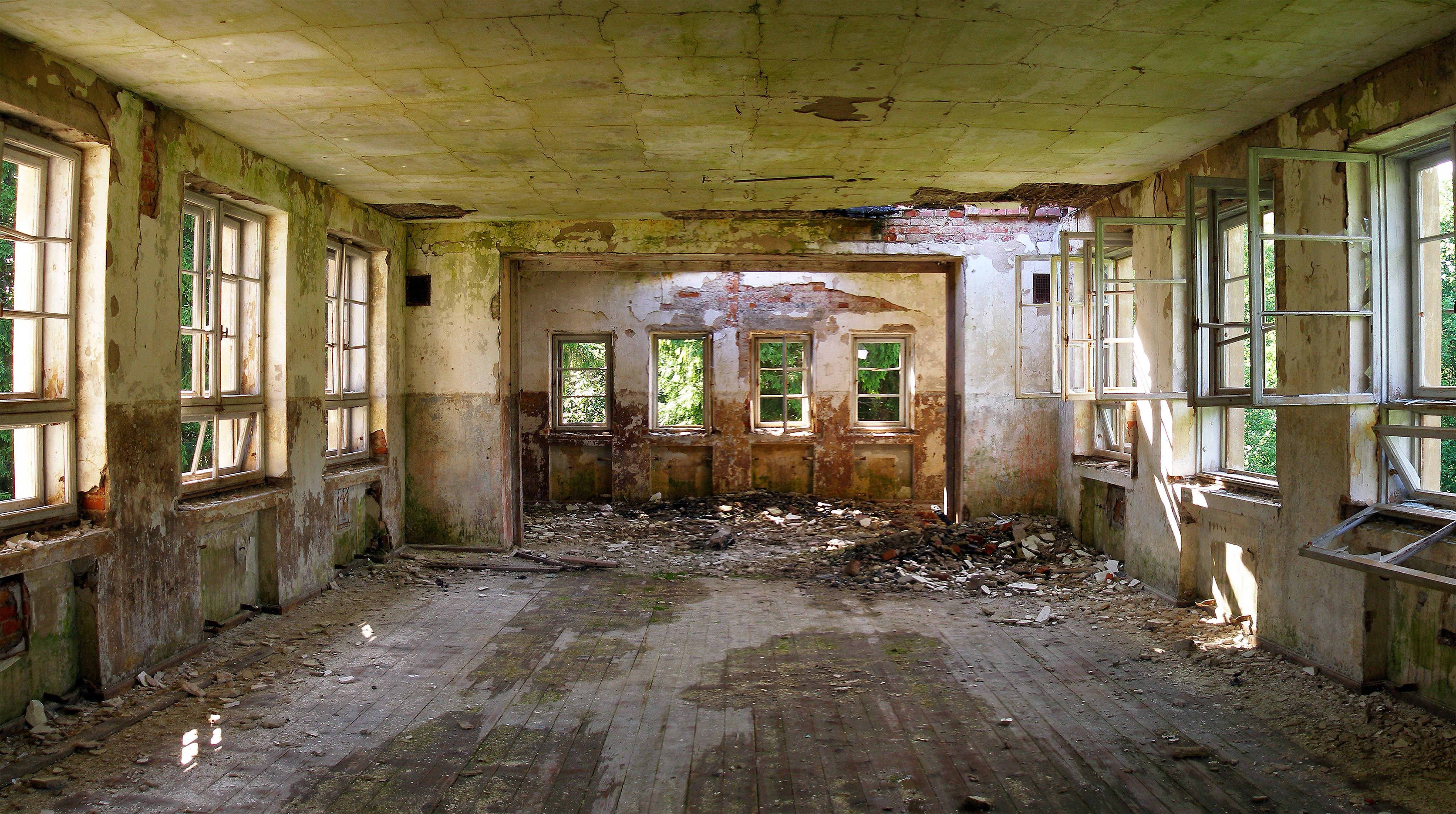 The hall of a derelict schoolhouse in Peressaare, Ida-Virumaa, Estonia.